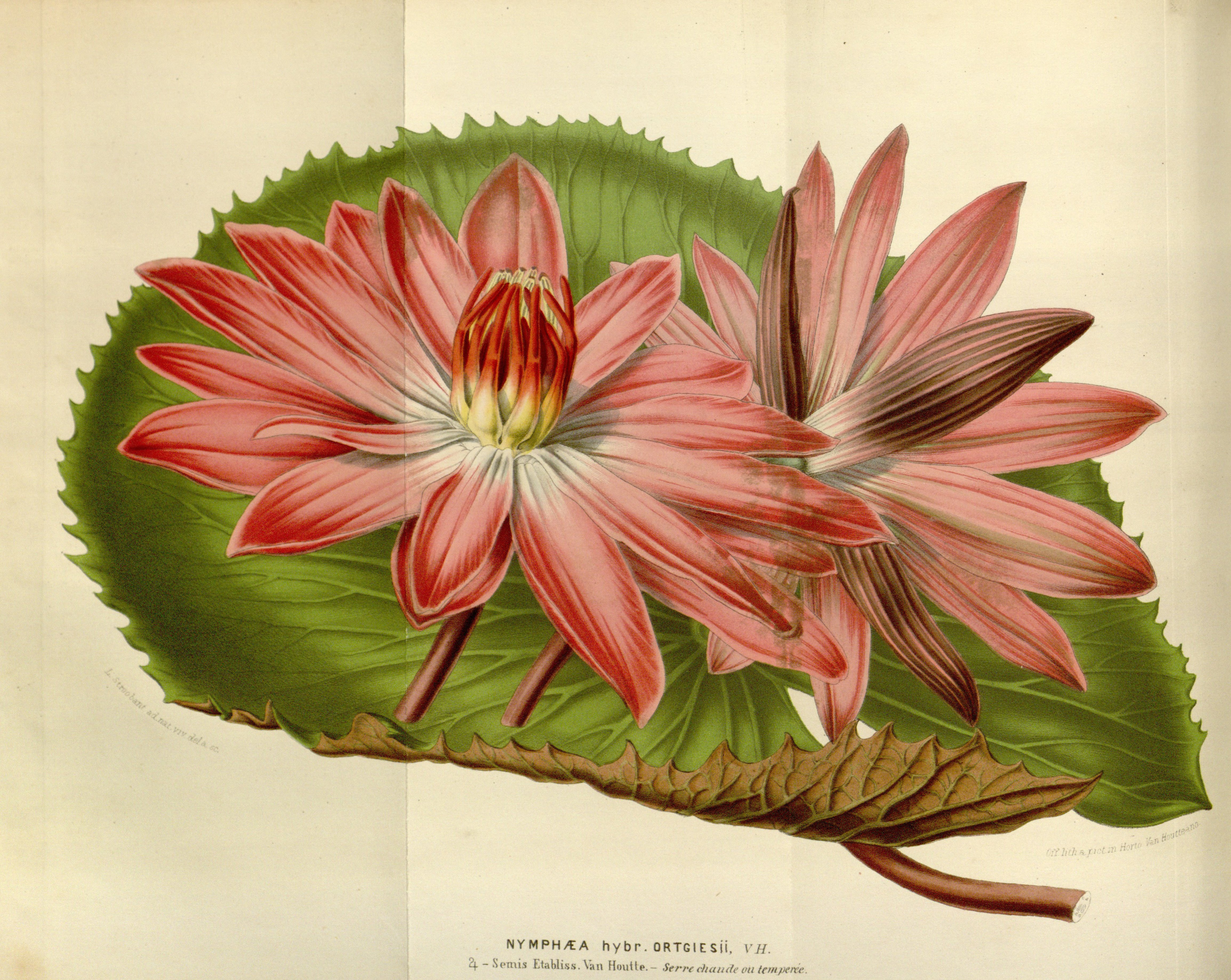 Nymphaea × ortgiesiana